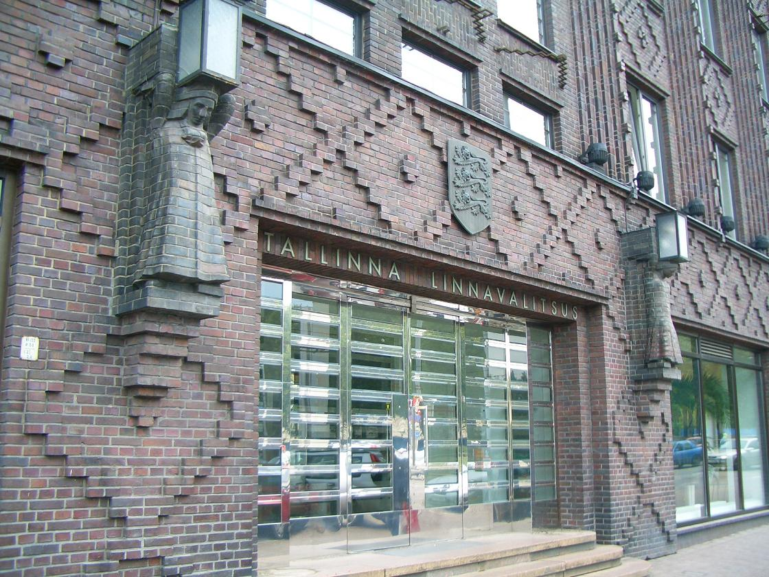 author: Jarmo K